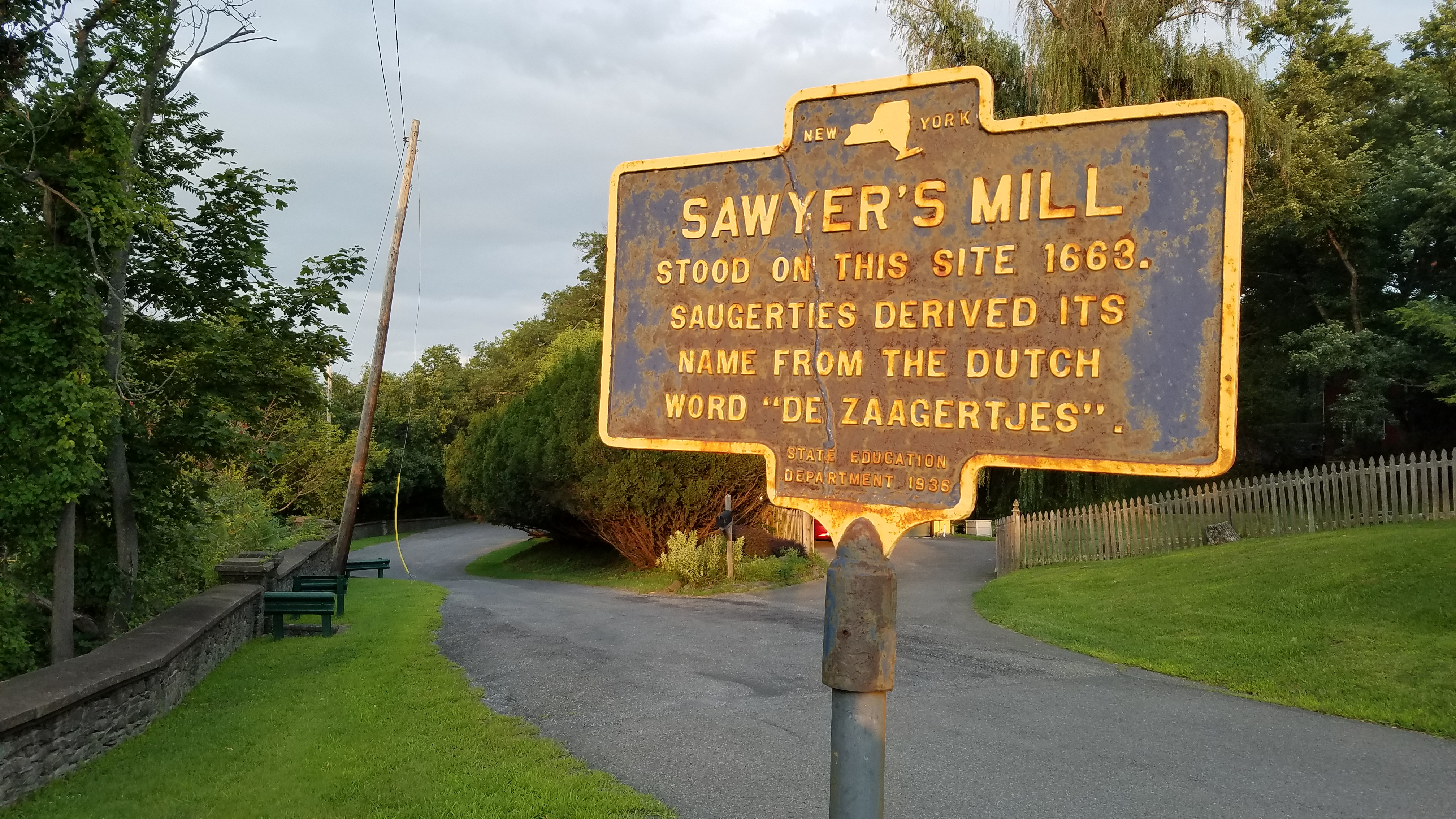 New York State historic marker for the Sawyer's Mill in Saugerties, New York..